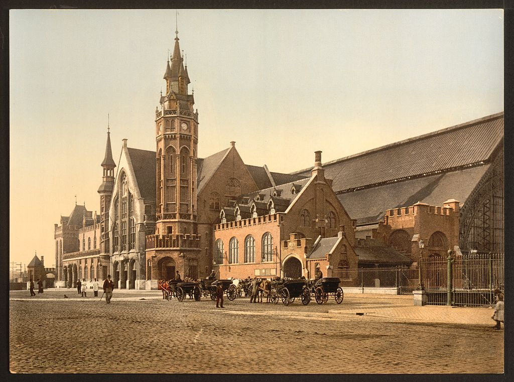 Bruges, second railway station on 't Zand (Bruges)